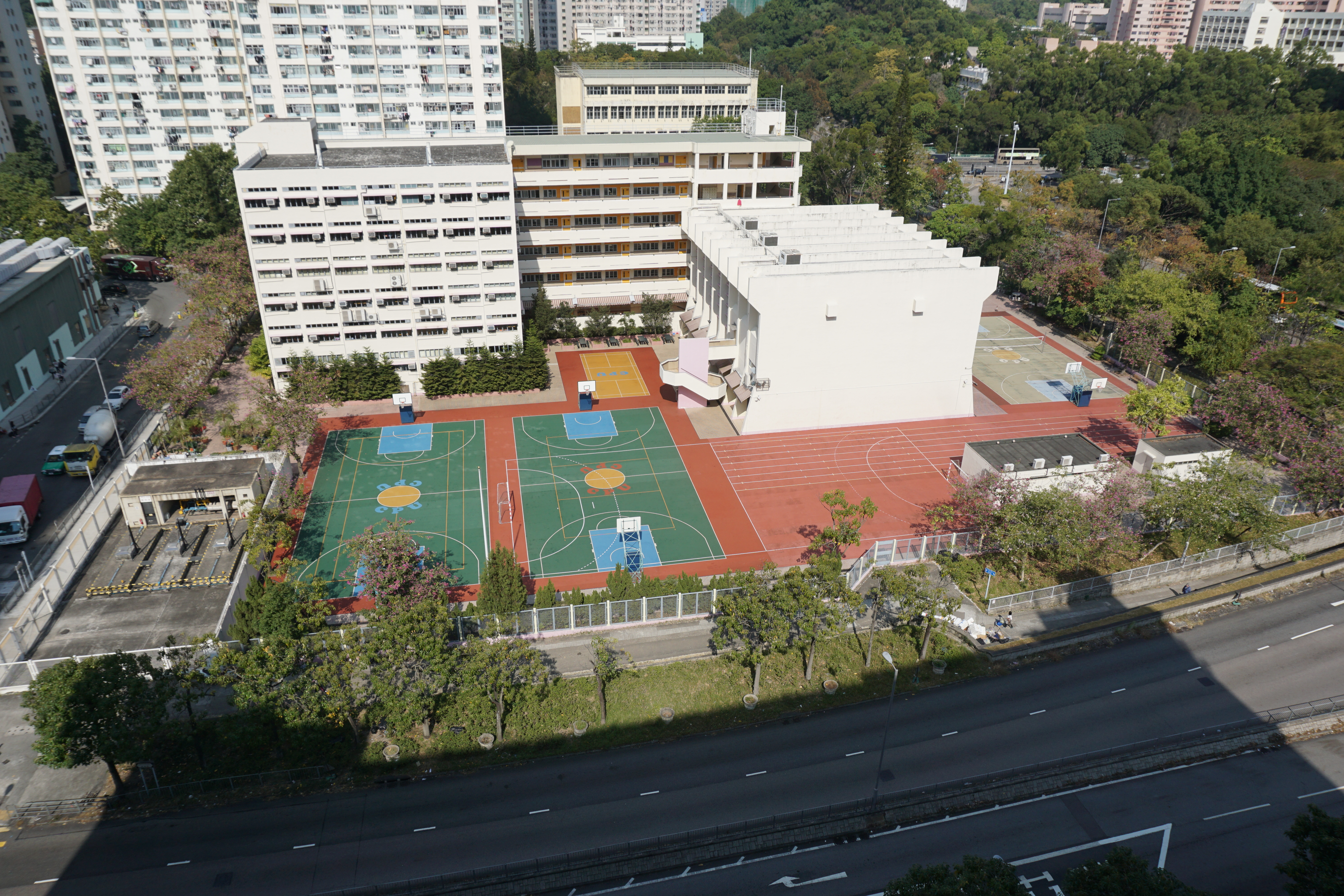 Carmel Pak U Secondary School in Tai Po, Hong Kong.